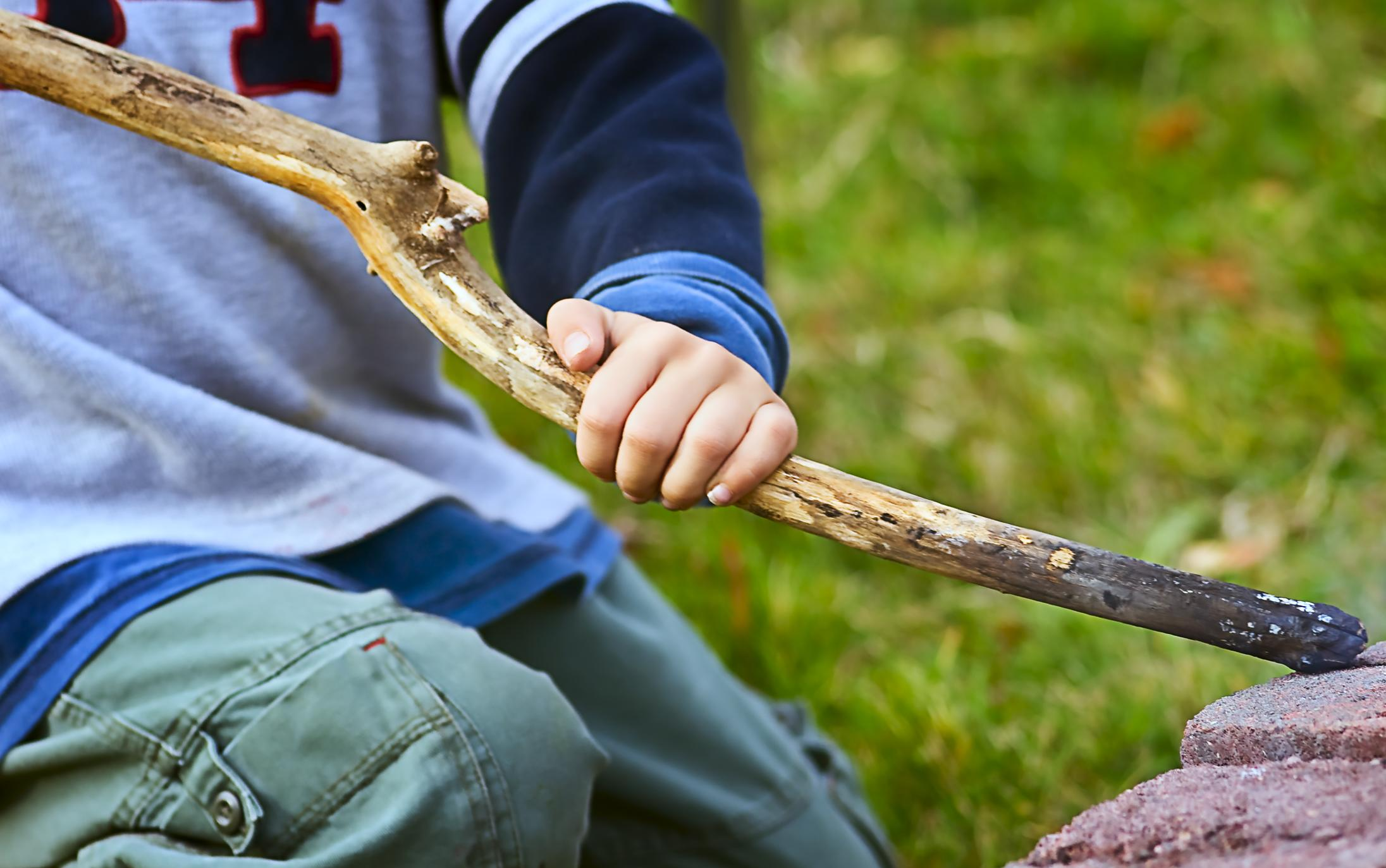 A boy gripping a stick.